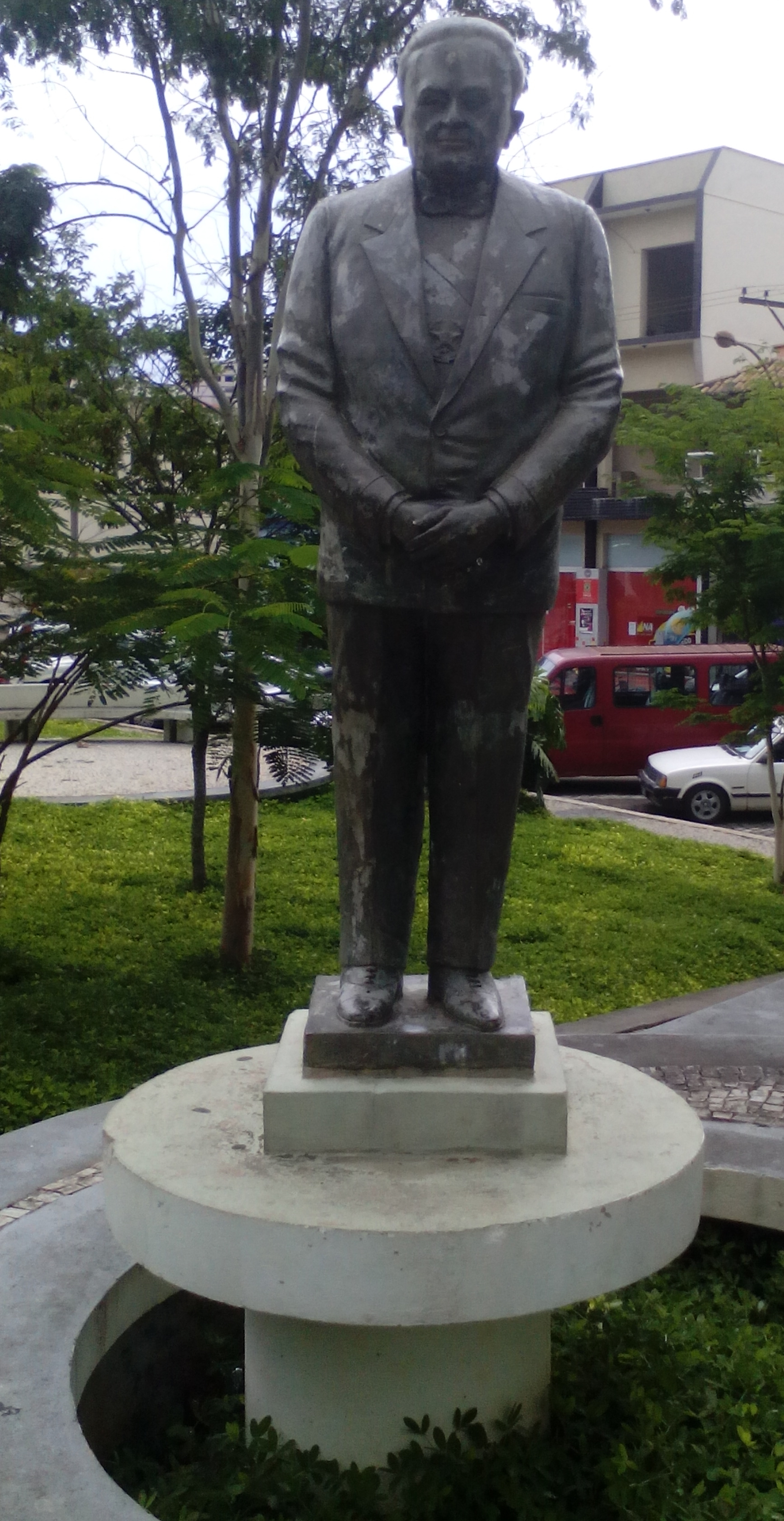 Statue of Humberto de Alencar Castelo Branco, Santana Square, Barroso, Minas Gerais, Brasil. February 2016.